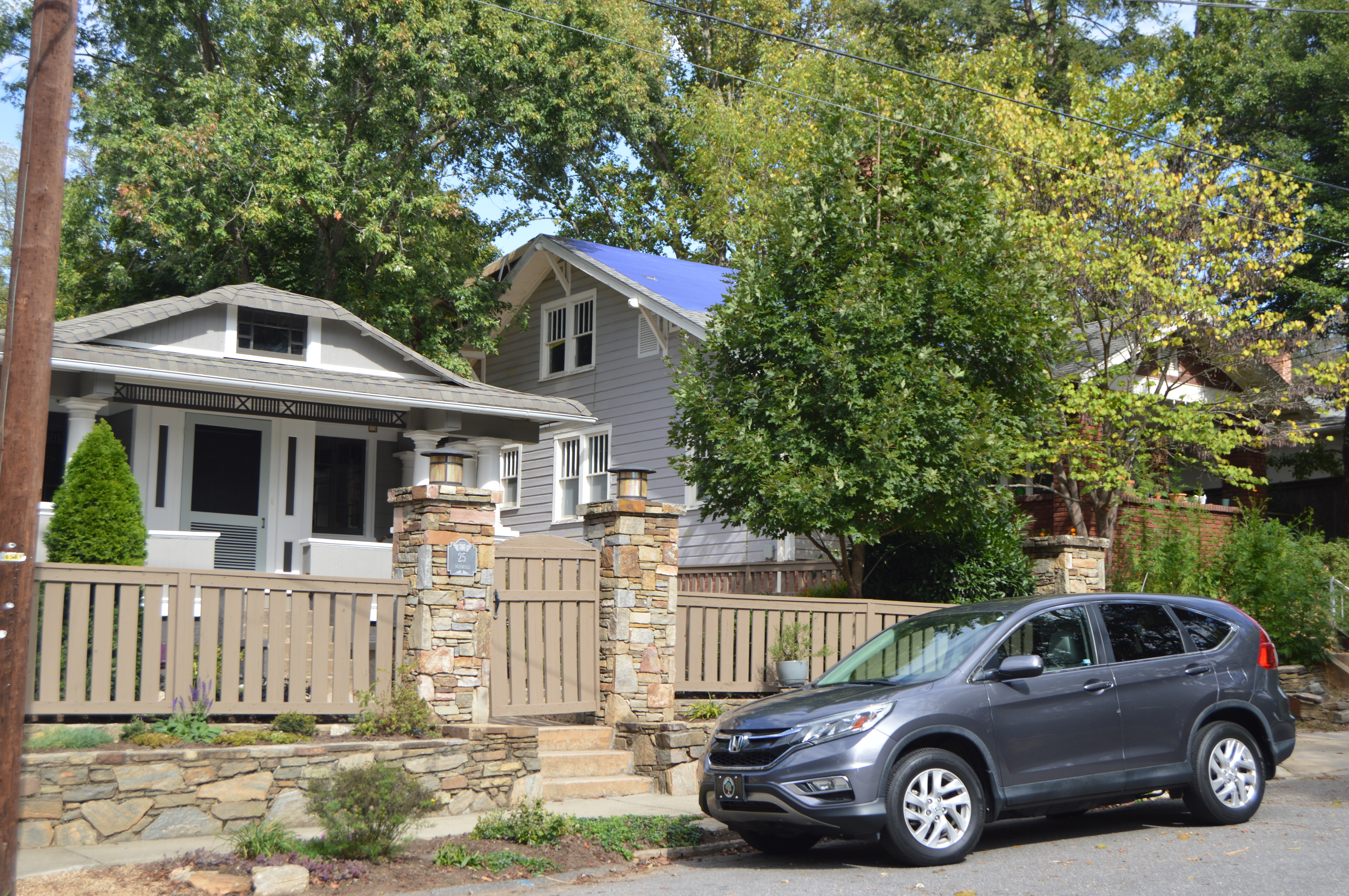 Houses on the northern side of Norwood Avenue at its intersection with Ramoth Road in Asheville, North Carolina, United States. Built in 1935 (left) and 1923 (right), they are part of the Norwood Park Historic District, a historic district that is listed on the National Register of Historic Places.